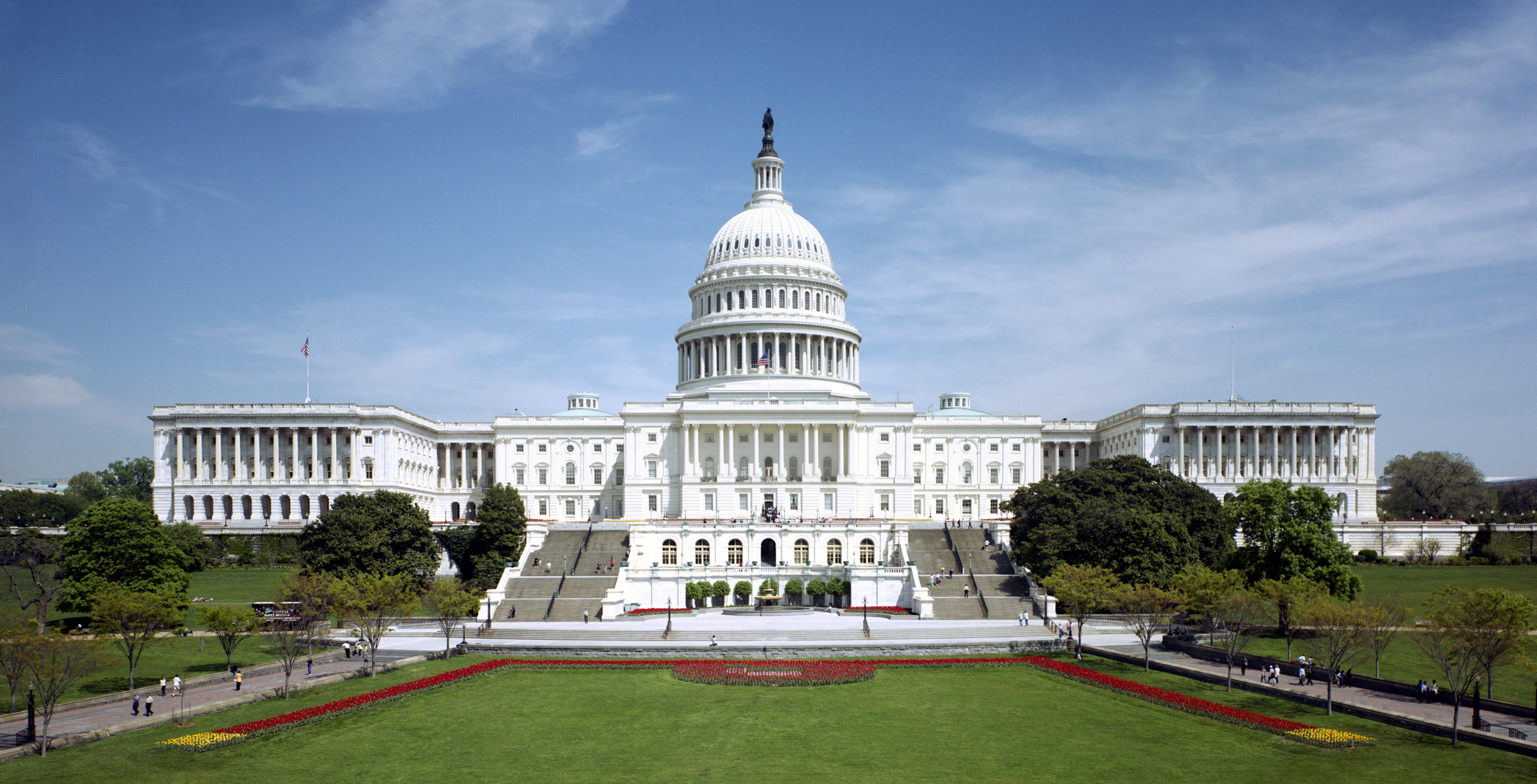 The western front of the United States Capitol. The Neoclassical style building is located in Washington, D.C., on top of Capitol Hill at the east end of the National Mall. The Capitol was designated a National Historic Landmark in 1960.